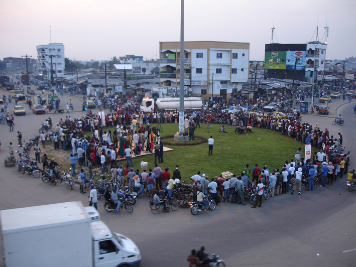 Sud Salon Urbain de Douala, Douala, December 2007 organised by doual'art in collaboration with iStrike Foundation. Photos by Kamiel Verschuren.